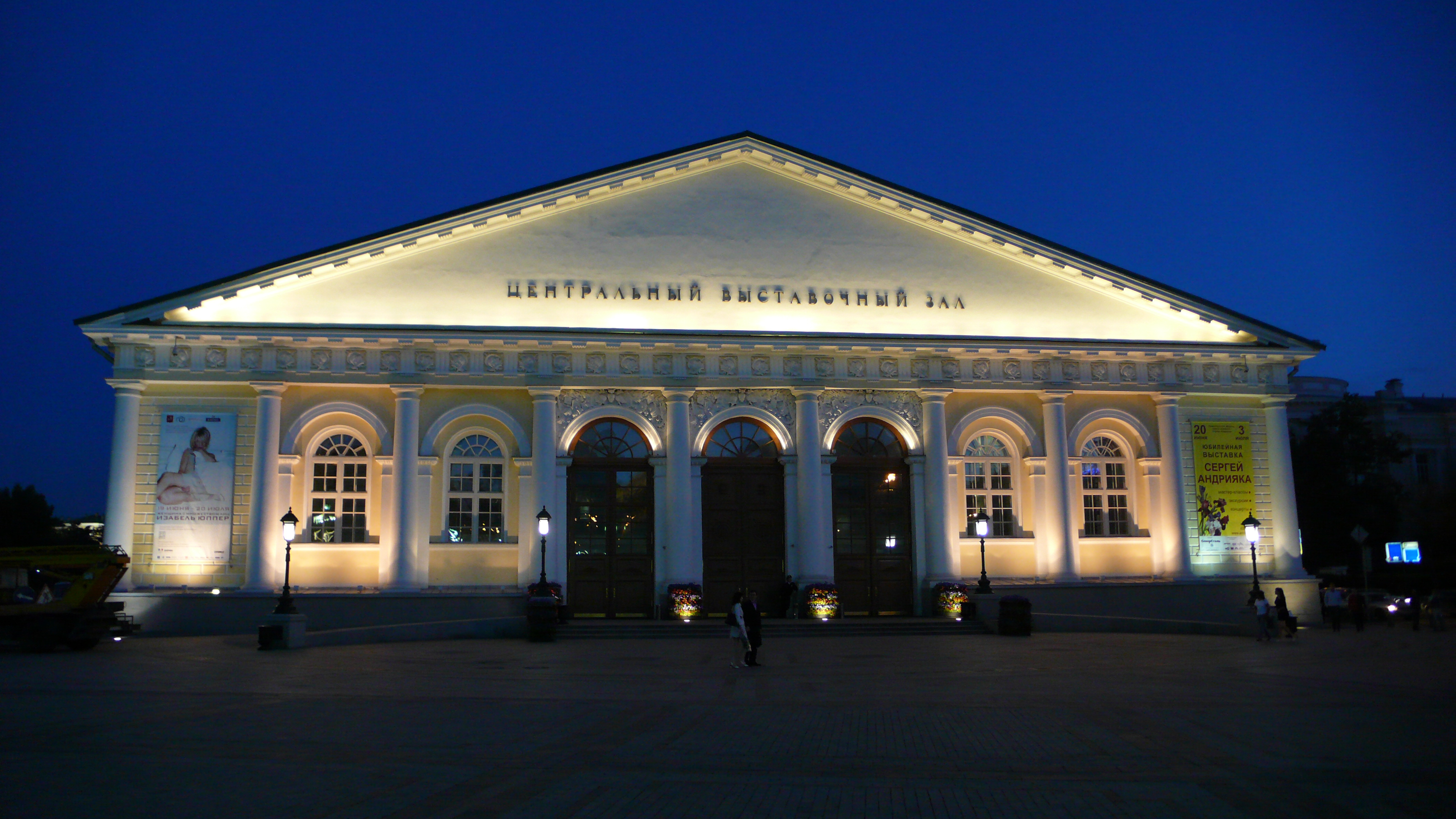 Moscow Manege, originally a horse riding venue, now an exhibition hall.